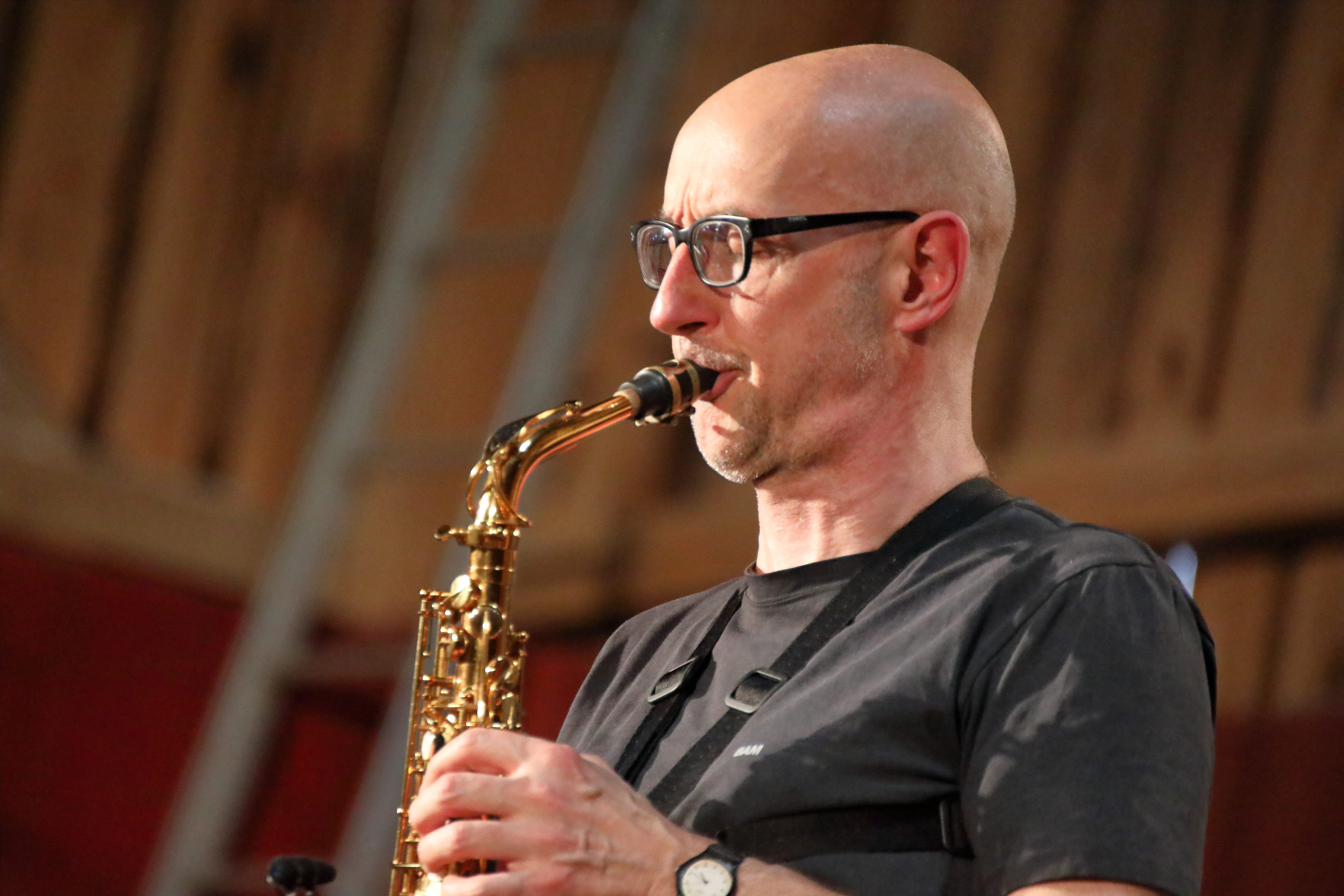 Thelonious with special guest Steve Cardenas at INNtöne Jazzfestival 2019. Lineup: Steve Cardenas (g}, Hans Koller (vtbo, euphonium), Martin Speake (as), Calum Gourlay (db) & ??? (dr).